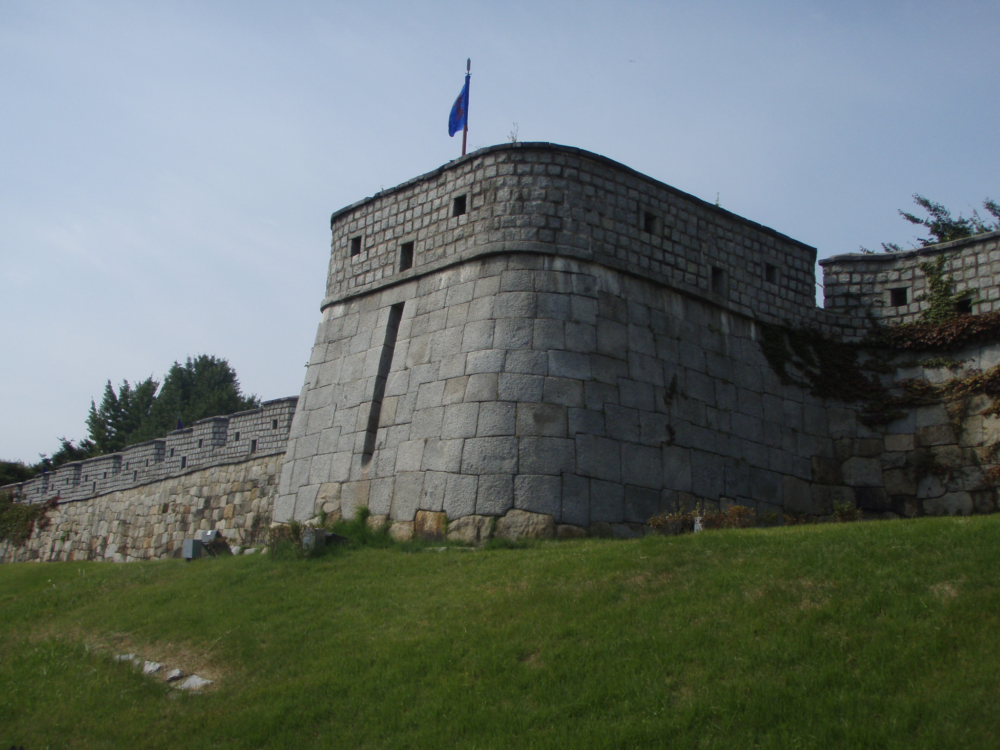 East Turret 2